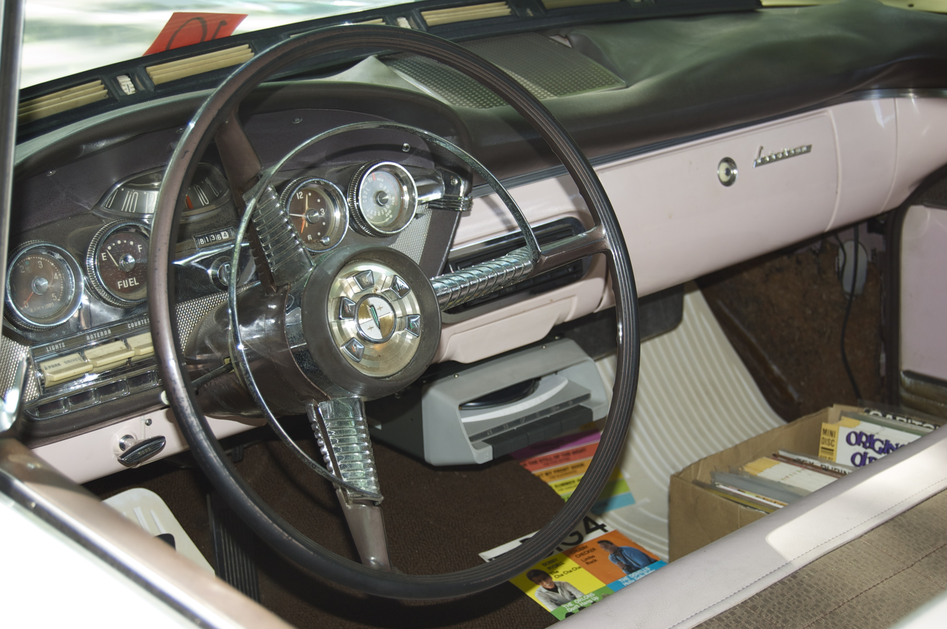 Dashboard of an Edsel Ranger in light pink